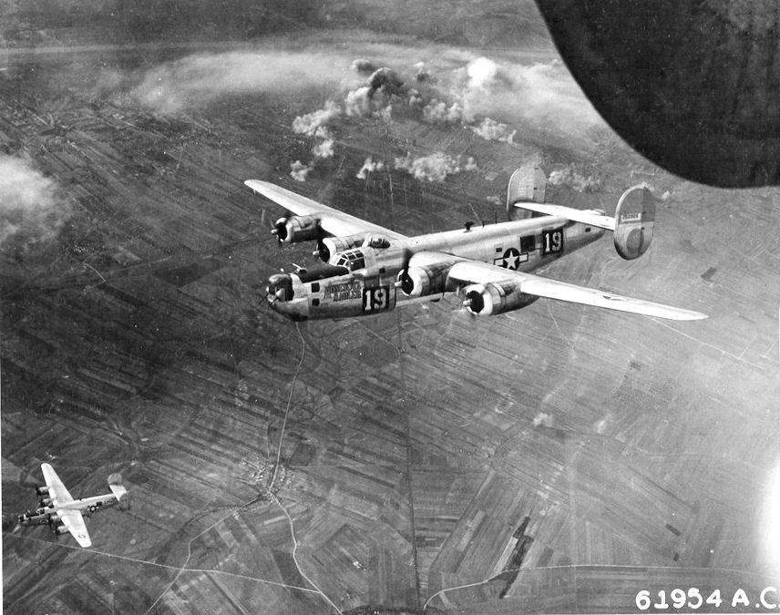 "Minnesota Mauler" B-24J-5-FO Liberator s/n 42-50906 724th Bomb Squadron, 451st Bomb Group, 15th Air Force. Crashlanded at Zara,Yugoslavia on March 9,1945.